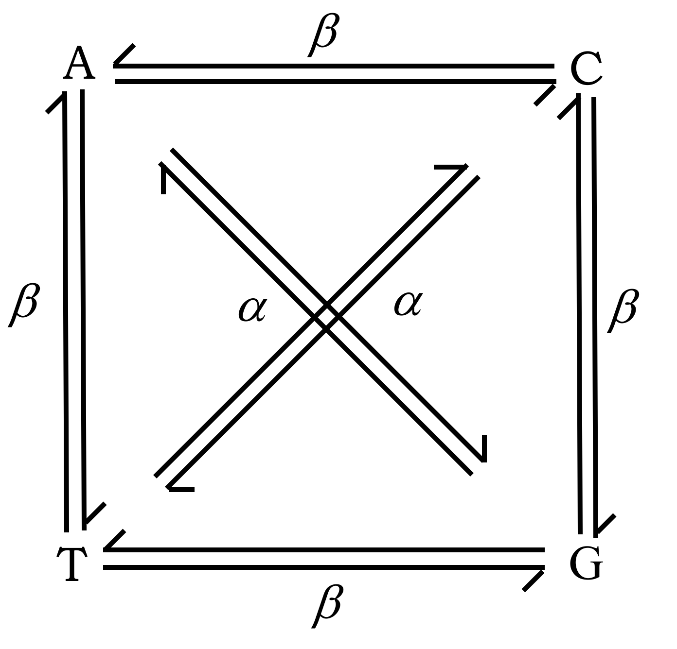 An image showing transitional mutations (A to G and T to C) and transversional (others) nucleotide substitutions. This is my own redrafting of an image on page 27 in: Nei, M. 1987. Molecular Evolutionary Genetics. Columbia University Press.